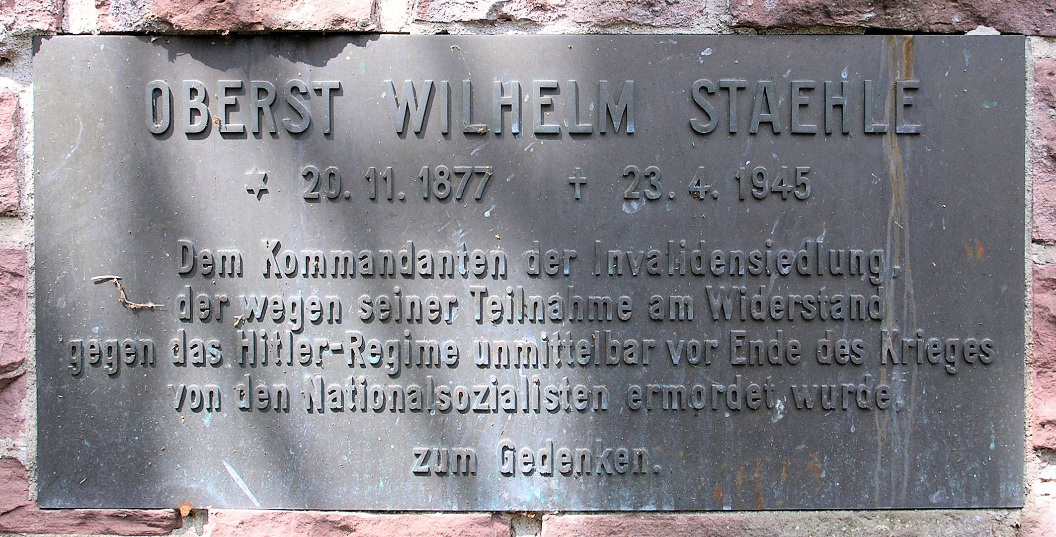 Memorial plaque, Wilhelm Staehle, Invalidensiedlung , Berlin-Frohnau, Germany